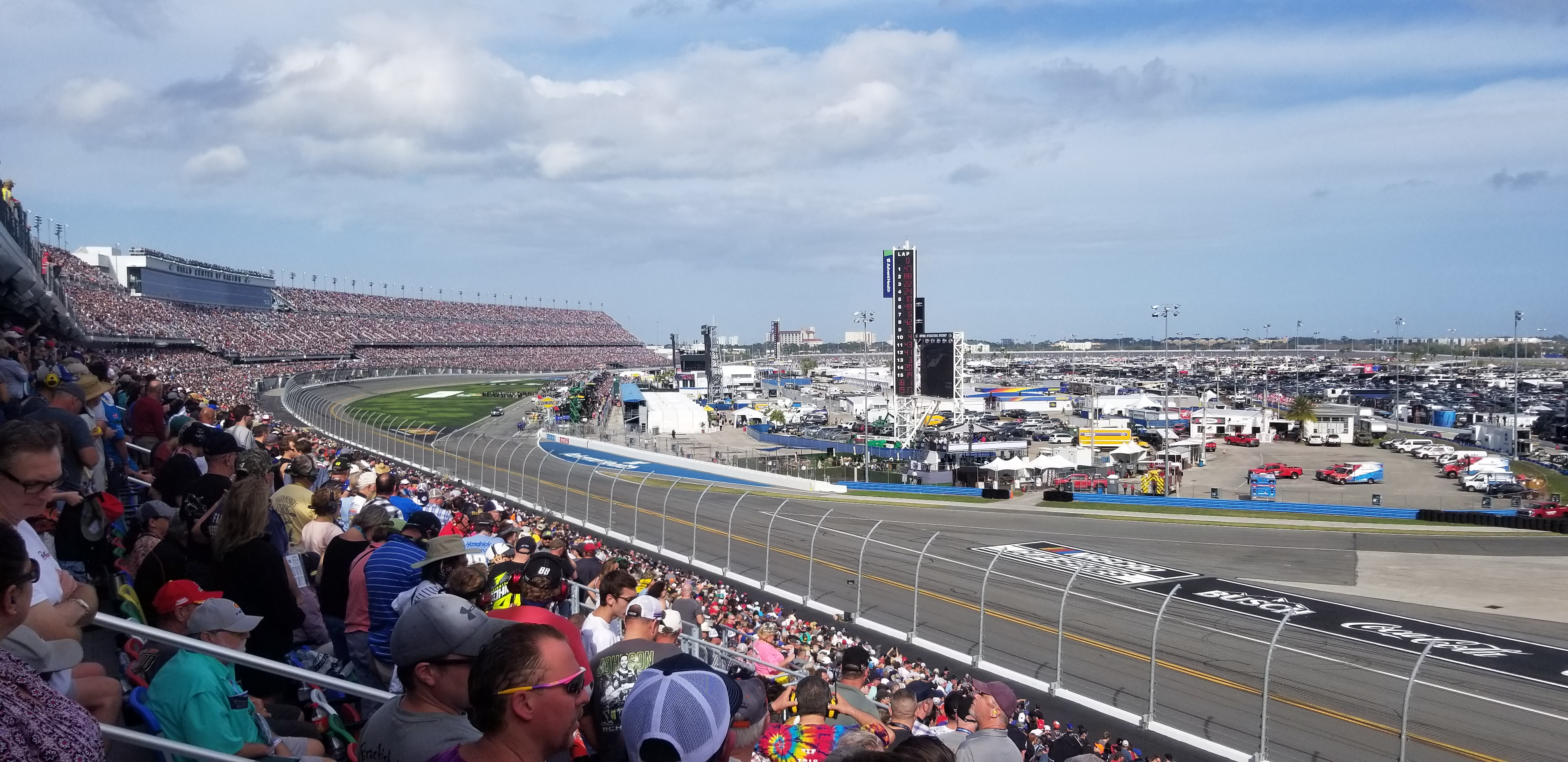 Daytona International Speedway prior to the 62nd annual Daytona 500.